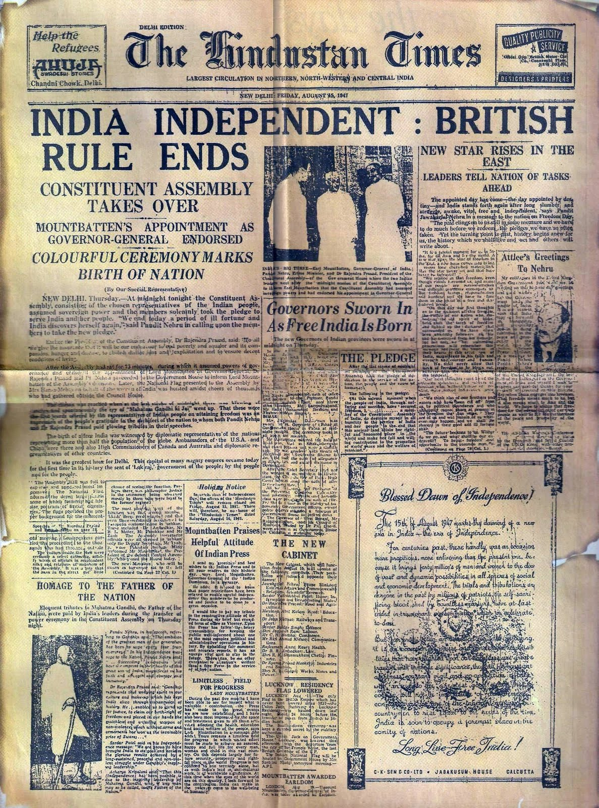 The Hindustan Times front page on 15 August 1947 (Indian Independence day)